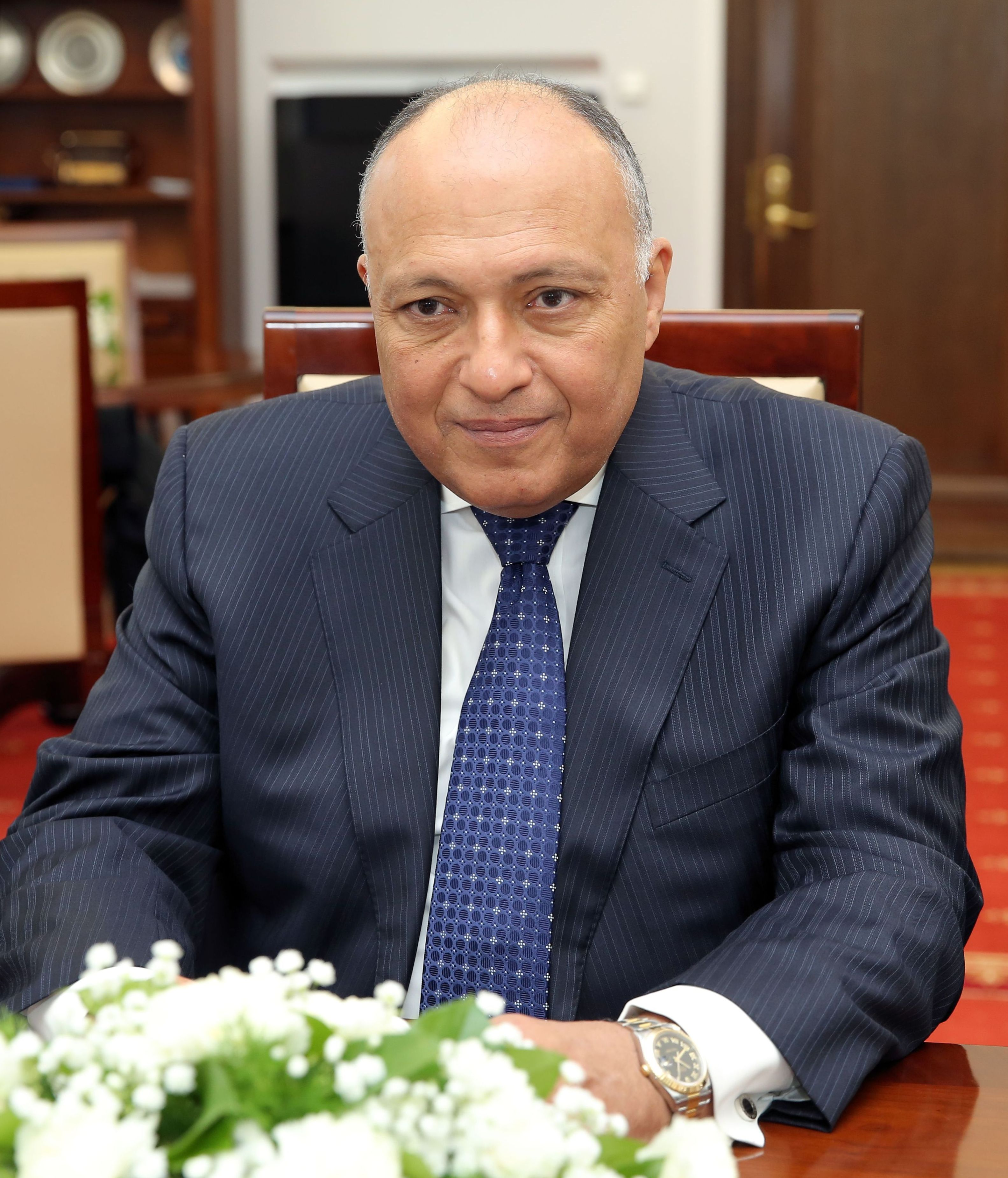 Minister for Foreign Affairs of Egypt Sameh Shoukry in the Polish Senate